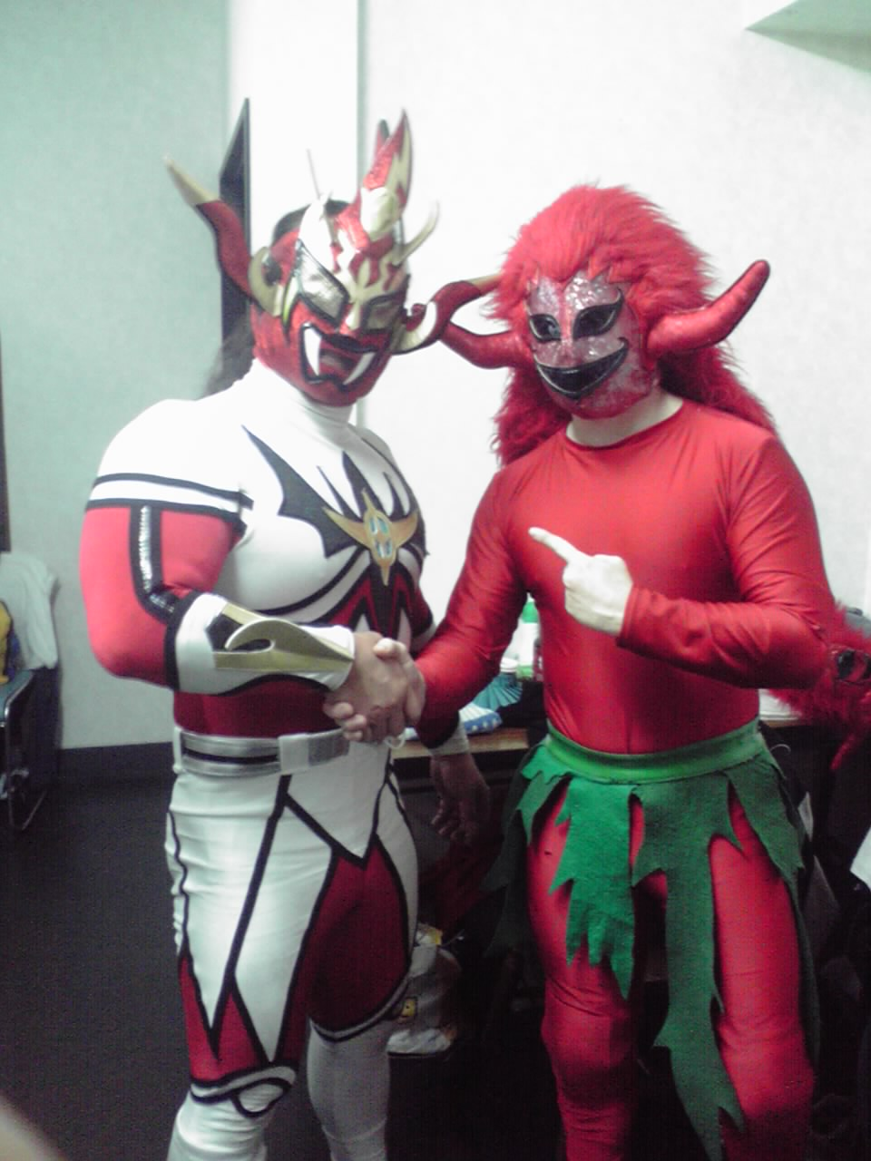 Pro Wrestler Brian Cannon aka Dingo, Thunder Dingo, Dingo Crocmaster (right) with Jushin Liger (left).